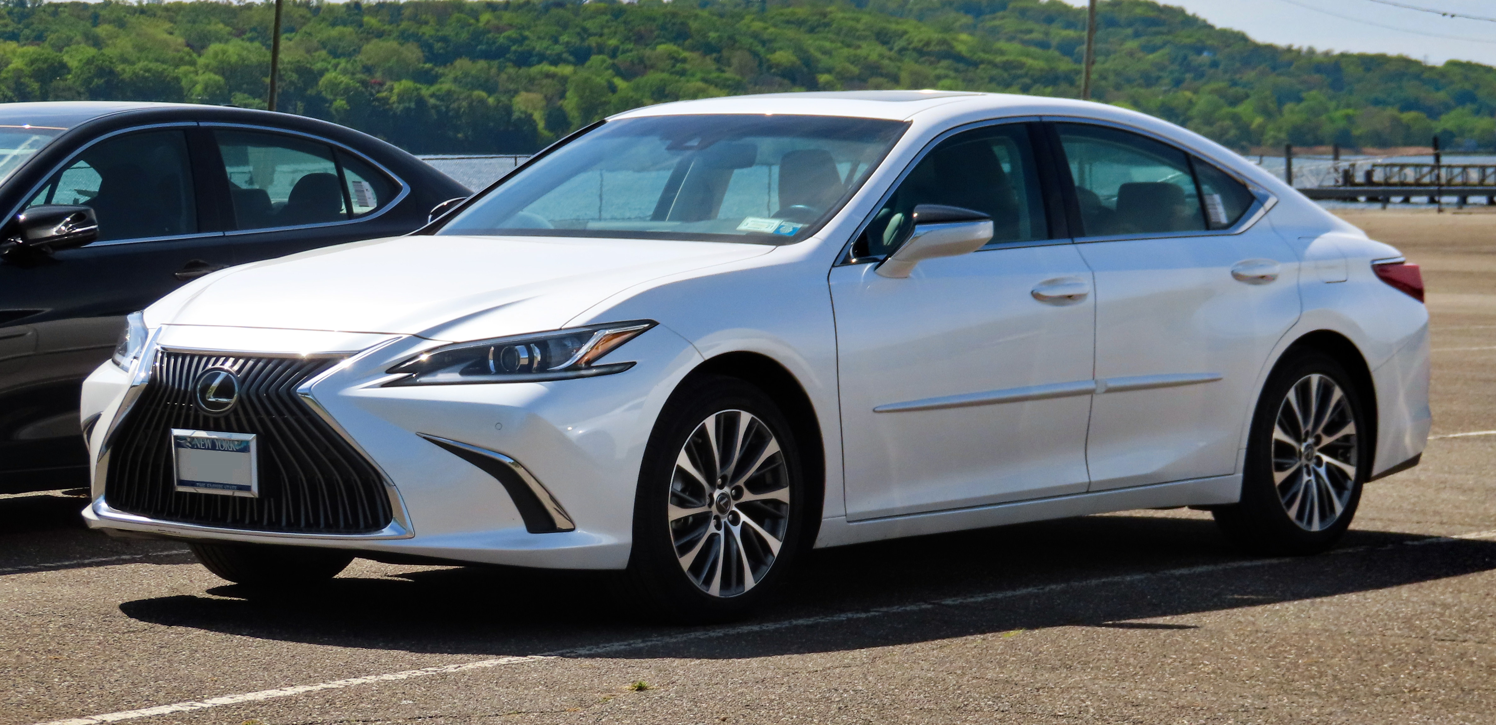 A 2019 Lexus ES 350 photographed at North Hempstead Beach Park, in North Hempstead, New York, USA